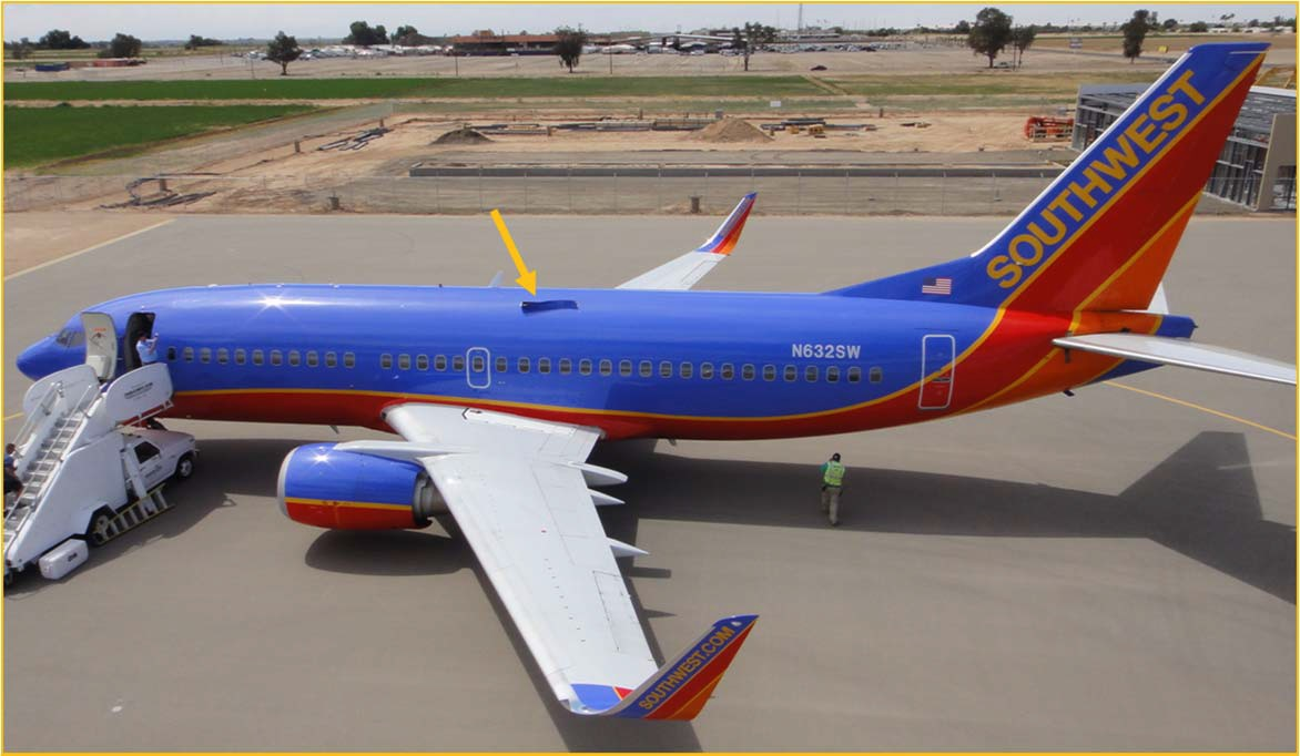 This photo shows the aircraft involved in a rapid decompression incident on April 1, 2011, on Southwest Airlines Flight 812, with the damage visible on the upper fuselage.